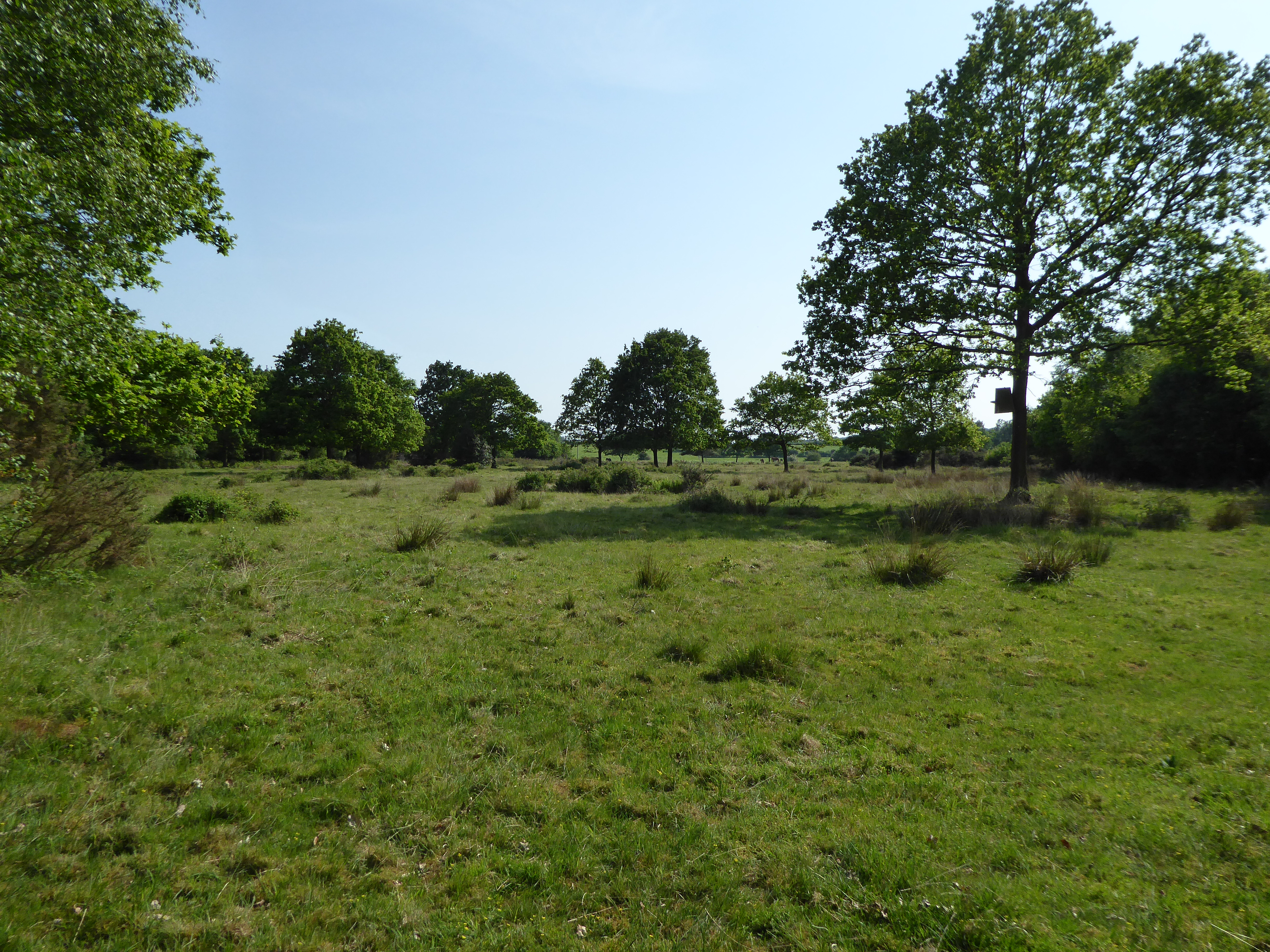 Sugar Fen is part of Leziate, Sugar and Derby Fens, a Site of Special Scientific Interest east of King's Lynn in Norfolk.